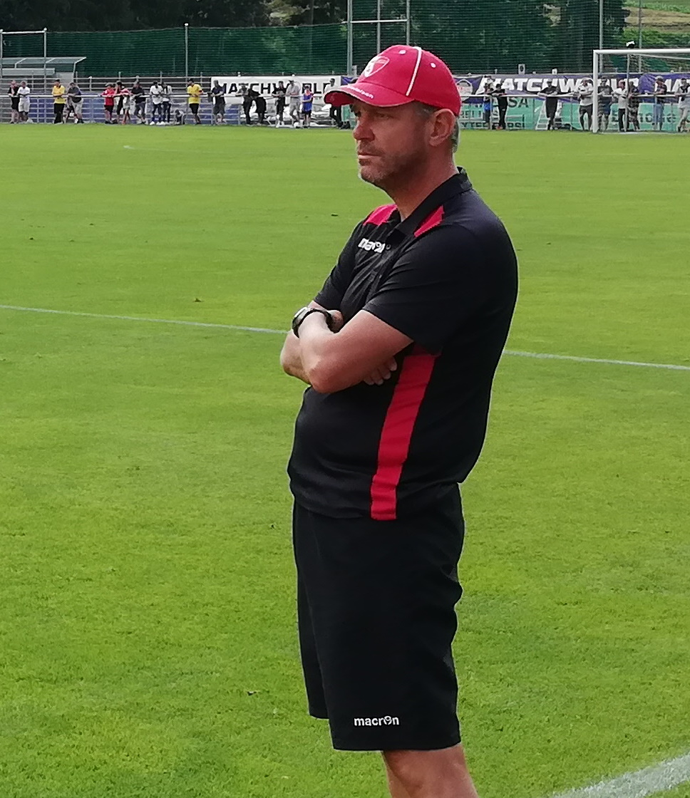 Stéphane Henchoz coaching FC Sion against Everton FC during a friendly game in Bagnes, Switzerland, in July 2019